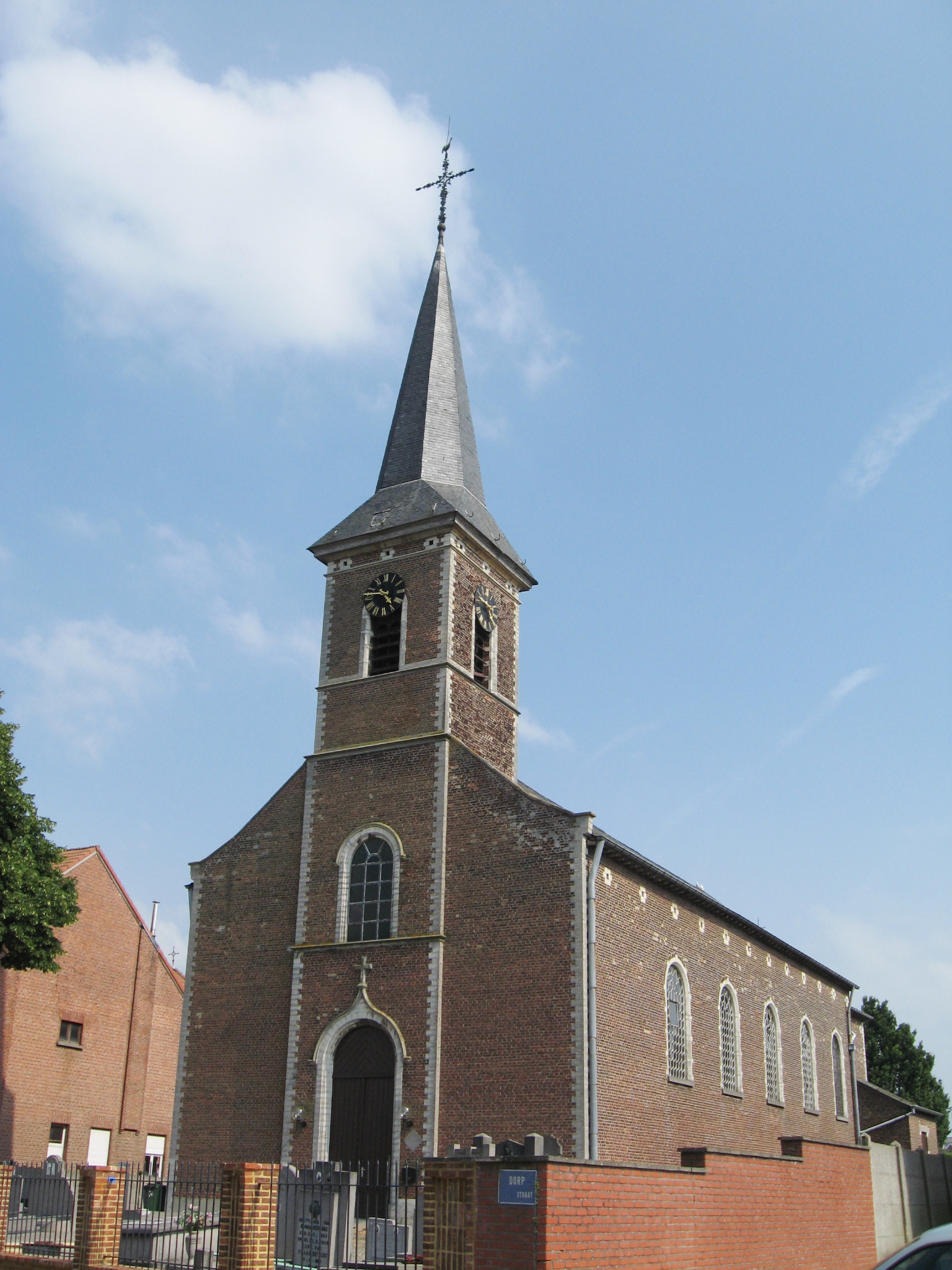 Church of Our Lady in Assent, Bekkevoort, Flemish Brabant, Belgium